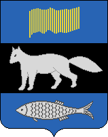 Coat of Arms of Yar-Sale (Yamalo-Nenetsky AO)